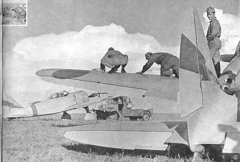 Japanese type 97 fighter plane published by China Incident Photograph Album (Shina Jihen Shashin Zenshu ), published in 1938 by Asahi Shimbun.